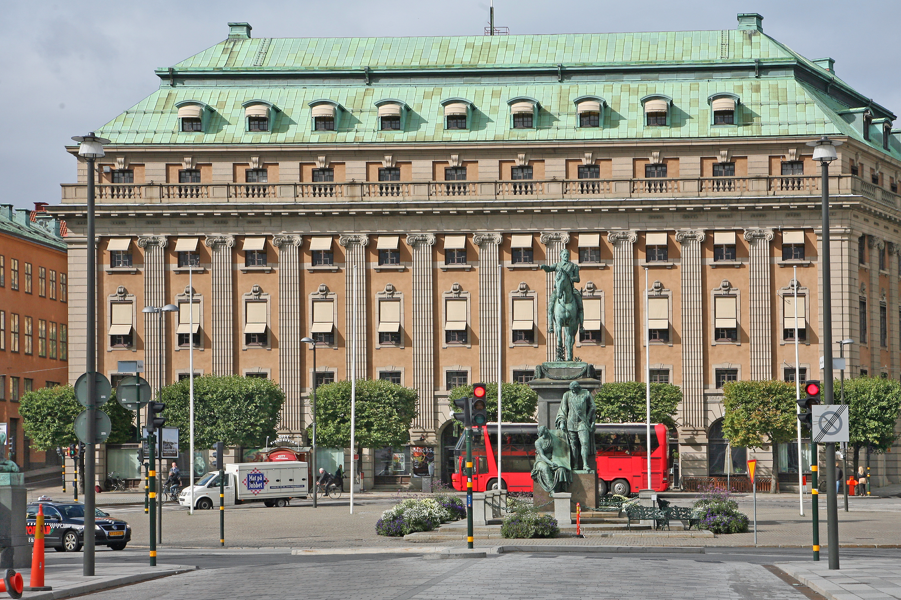 Statue of Gustav II Adolph in Stockholm, Gustav Adolfs torg.